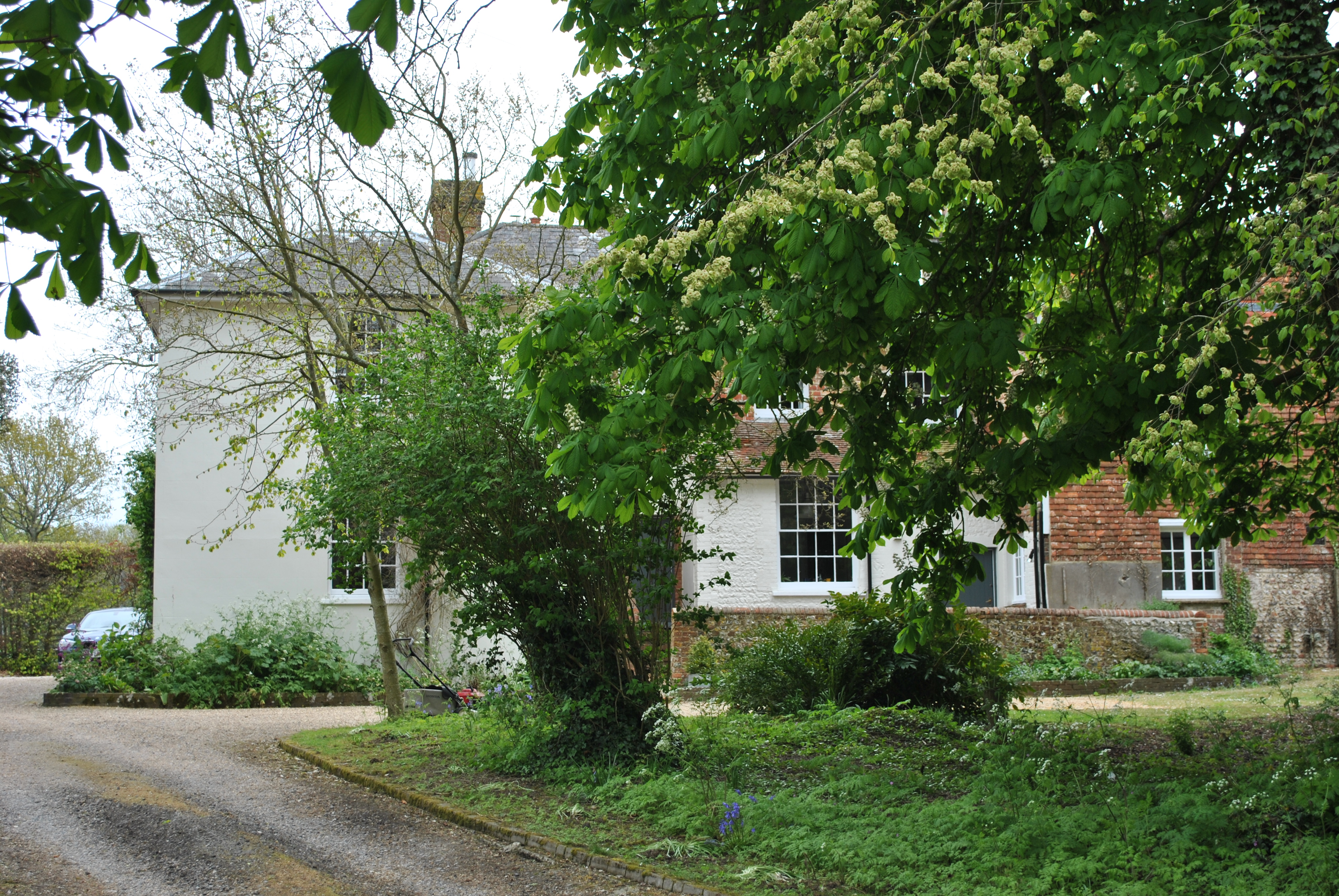 Tilton House, 2017, Originally published in Queer Places, Vol. 2.1: Retracing the Steps of LGBTQ people around the World